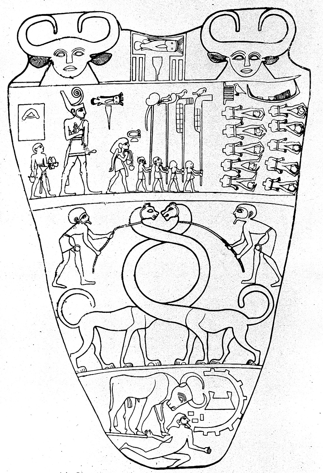 Obverse of the great palette of King Na'rmer. General Collections Keywords: Na'rmer